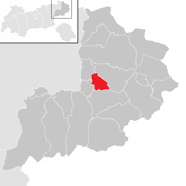 District Kitzbühel